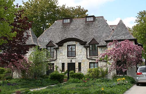 Thomas Bossert House, Shorewood, National Registered Historic Place.